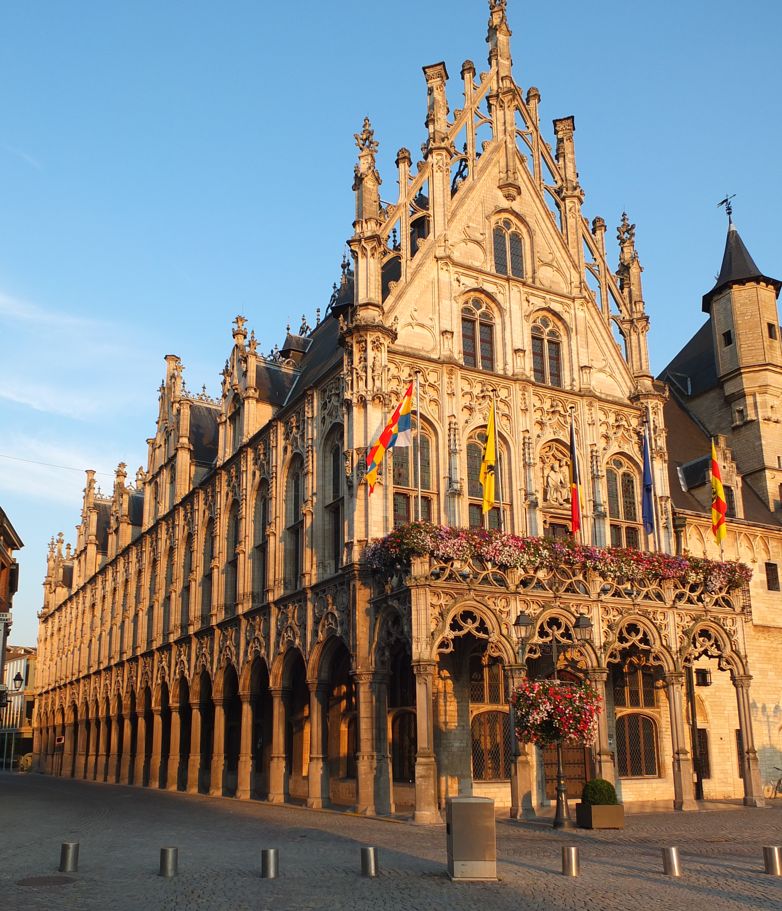 Mechelen City Hall, Flanders, Belgium.